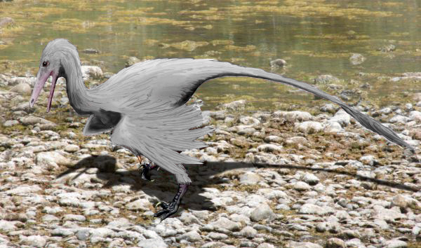 Buitreraptor